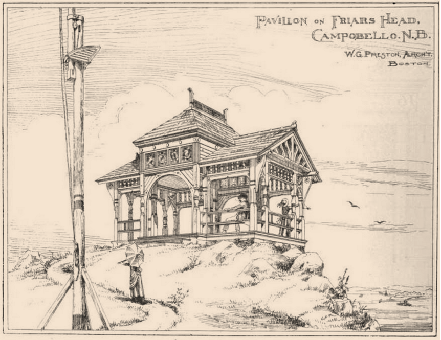 Image of the Pavillion at Friars Head, Campobello, New Brunswick, by William Gibbons Preston, architect, which appeared in the American Architect and Building News edition of June 10, 1882